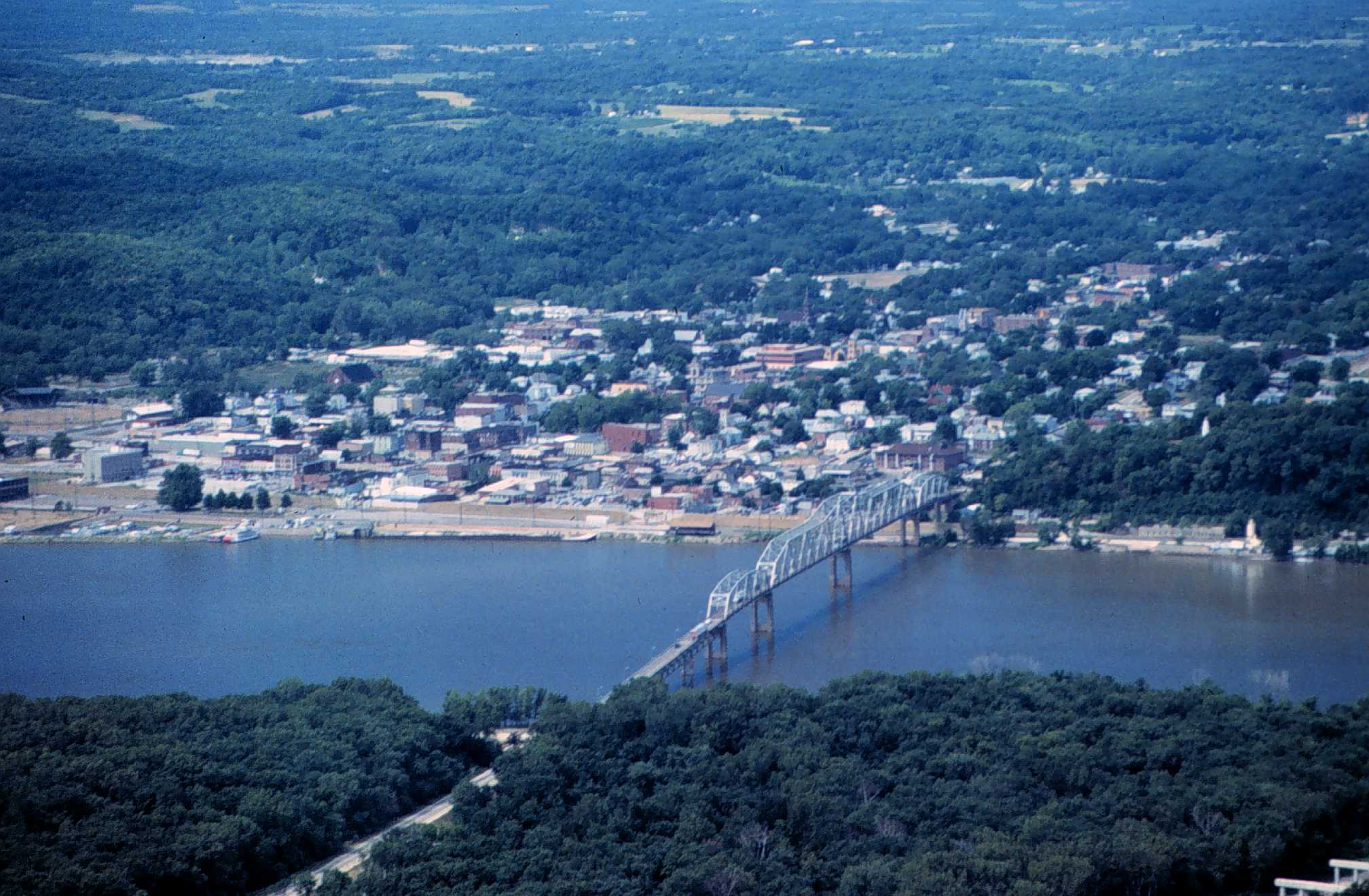 Hannibal, Missouri with old Mark Twain Memorial Bridge (now demolished) in foreground.